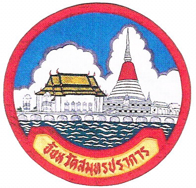 Provincial seal of Samut Prakan province.